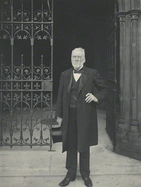 Photograph of Samuel Young MP at the St Stephen's Entrance to the House of Commons in London.